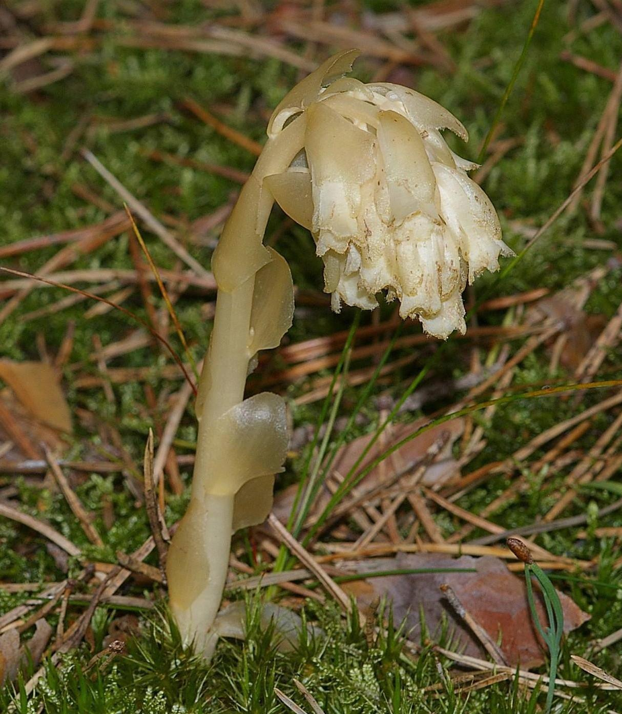 Habitus and inflorescence of Monotropa hypopitys.